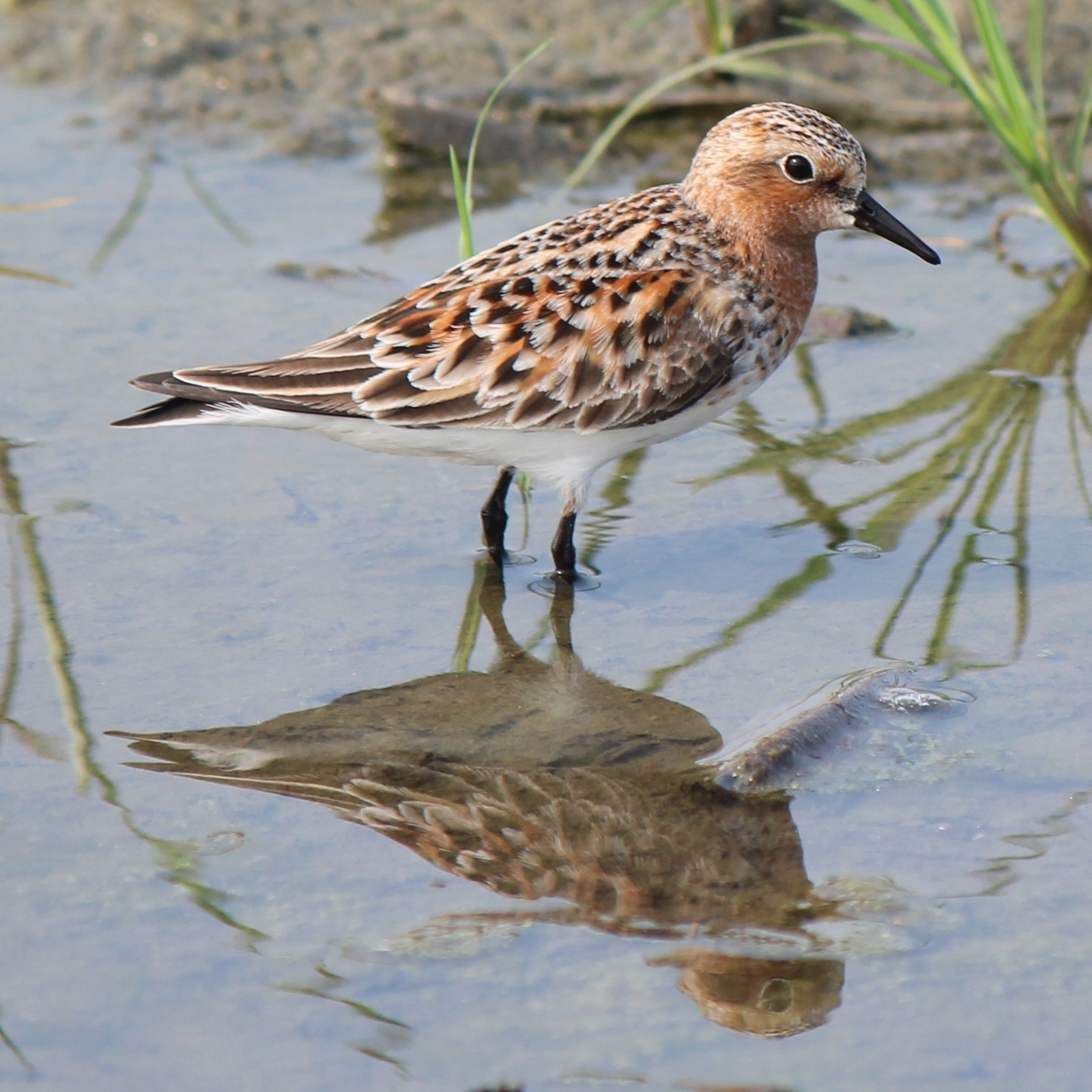 Calidris ruficollis (Red-necked Stint) summer plumage, in Japan